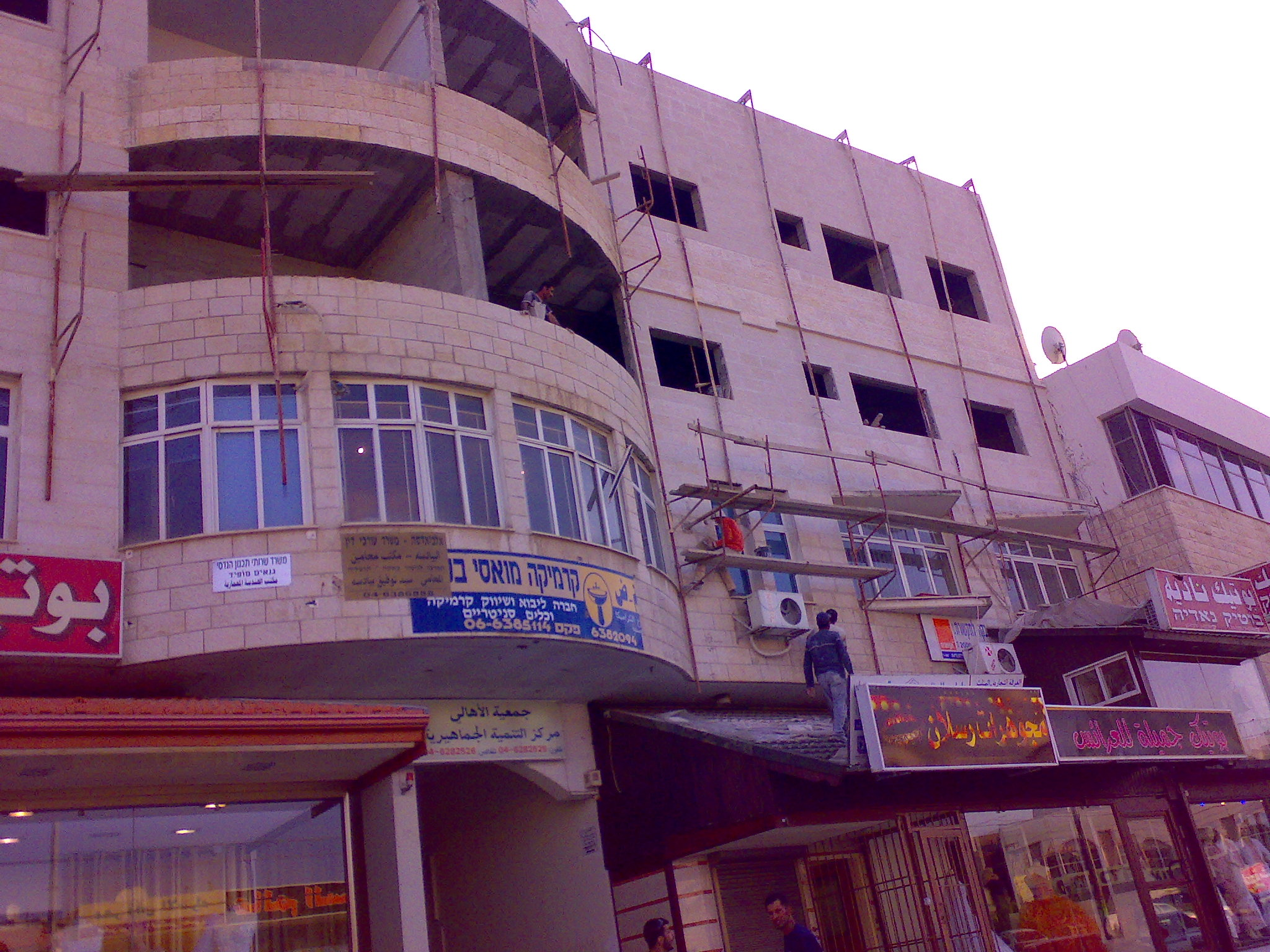 Constructions works for expanding an office building in Baqa el Gharbiyya.